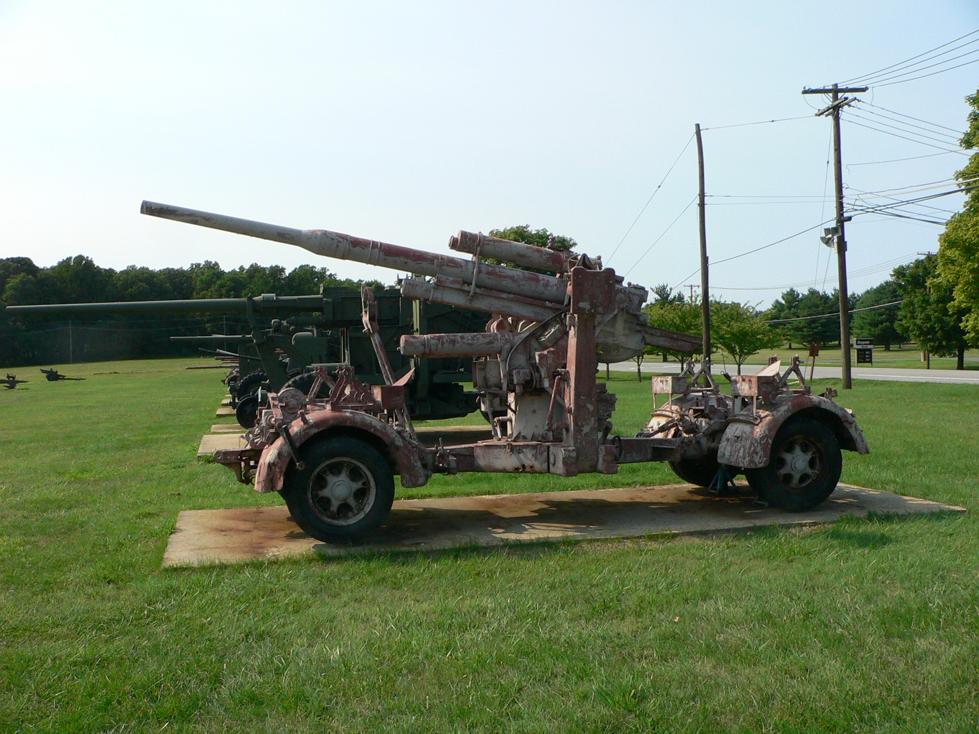 Picture taken by myself, Mark Pellegrini, at the United States Army Ordnance Museum (Aberdeen Proving Ground, MD) on August 14, 2007.